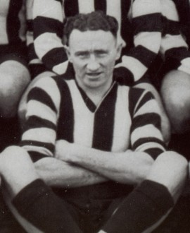 Photo of Jock Morison in 1939